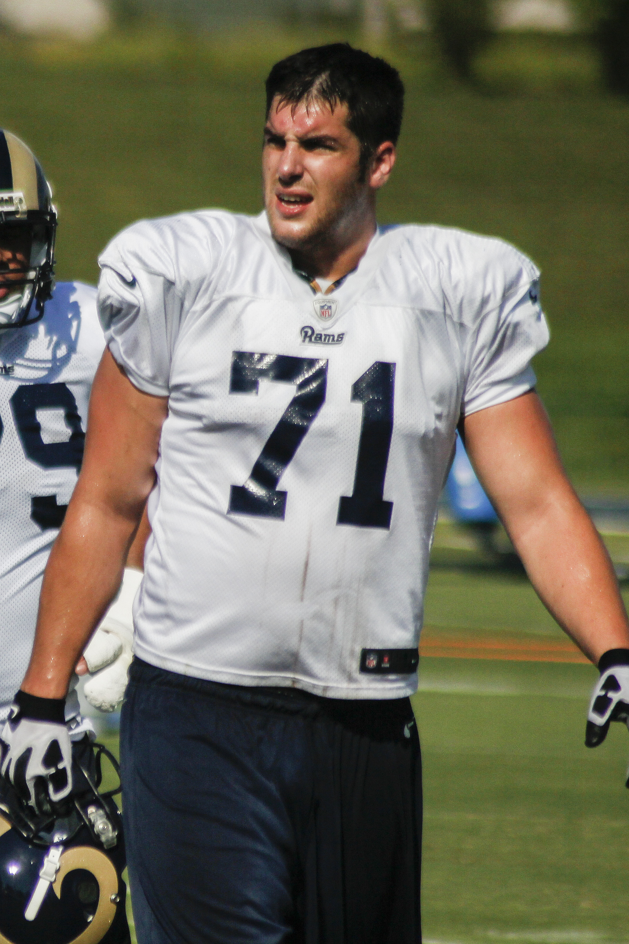 Rams Defensive Tackle Matt Conrath, 2013 Training Camp.